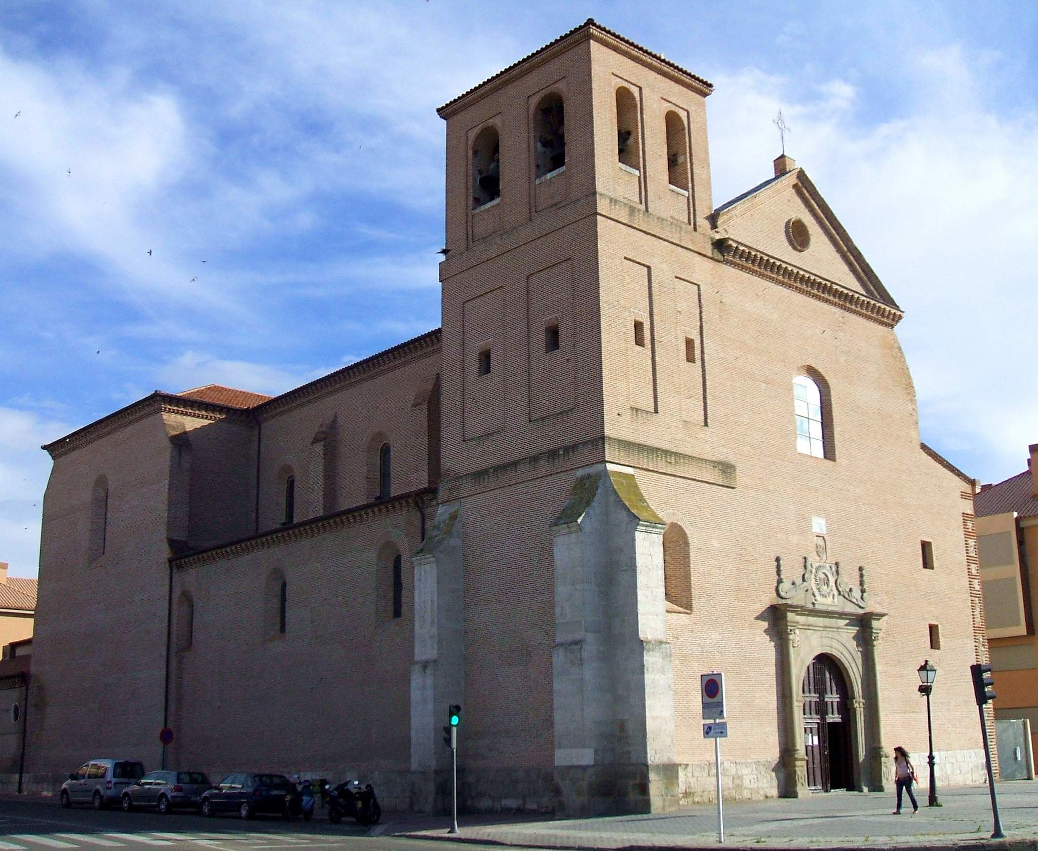 Church of Santiago el Real, Medina del Campo (Valladolid)